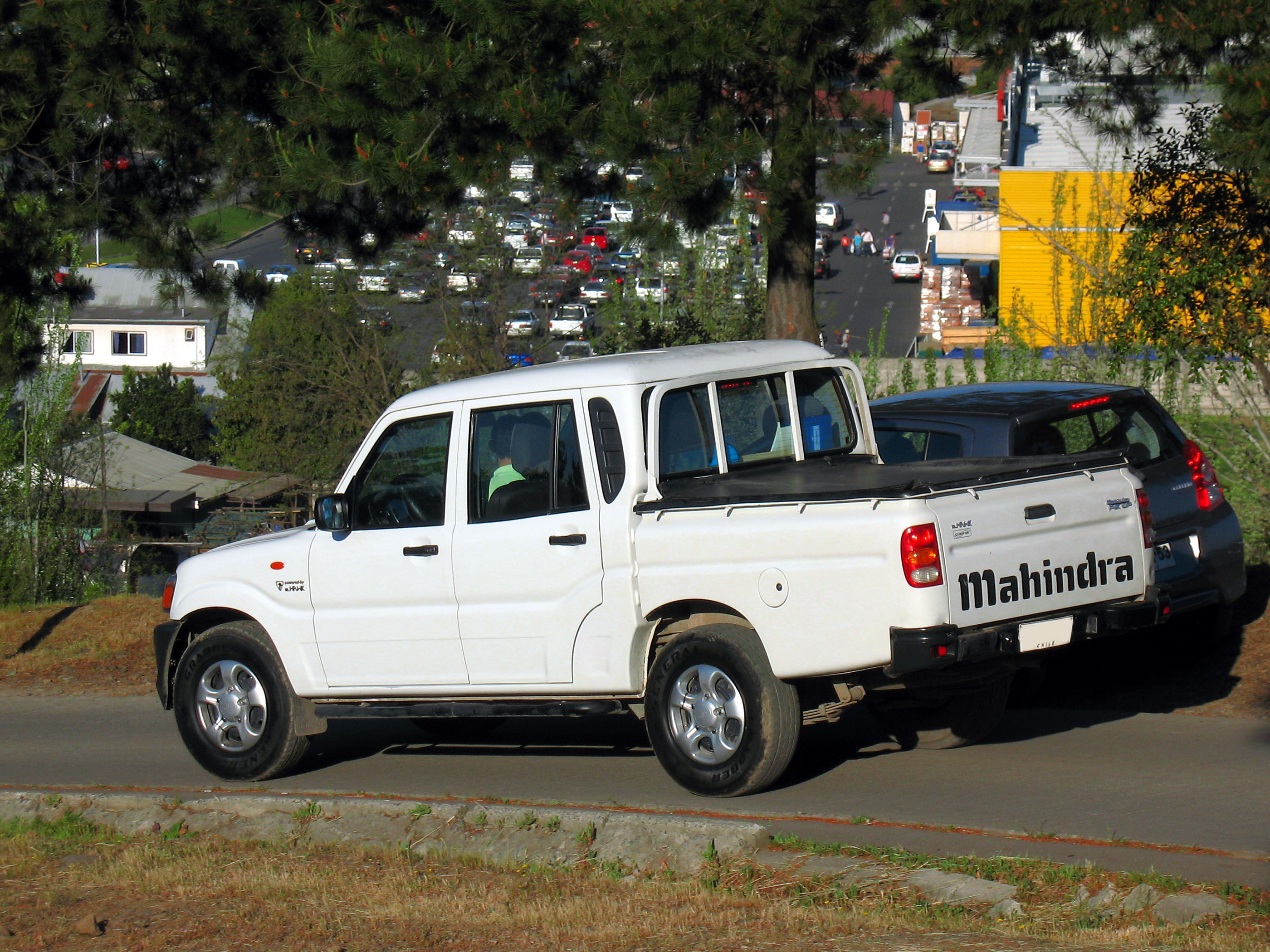 I think nobody expected that this one would be such a huge success here